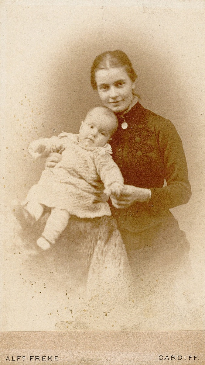 Norwegian Ellen Hall (1861–1910), née Falk. Wife of Birger Anneus Hall who was seaman's priest in Cardiff at time of photo.